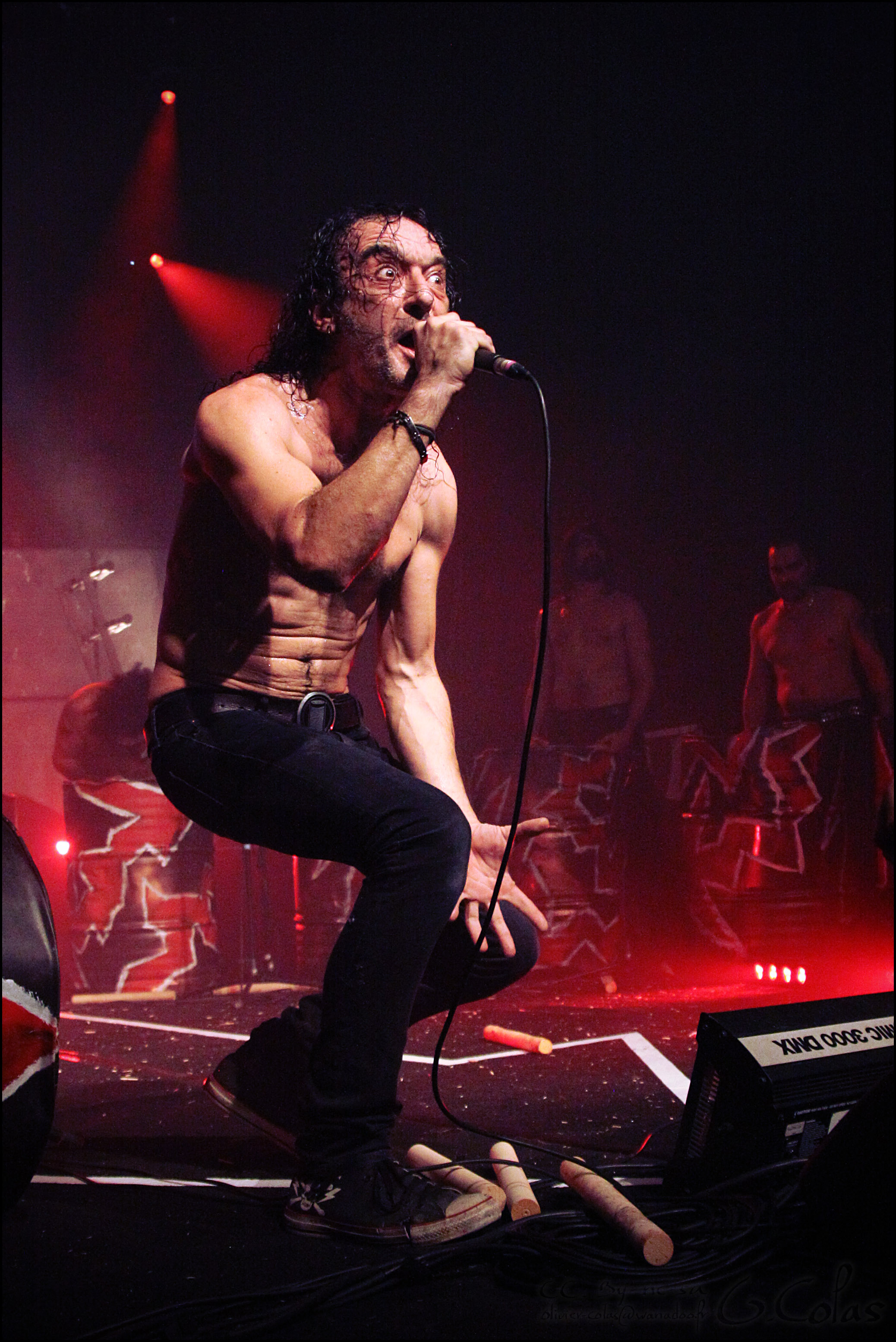 Tambours du Bronx singer